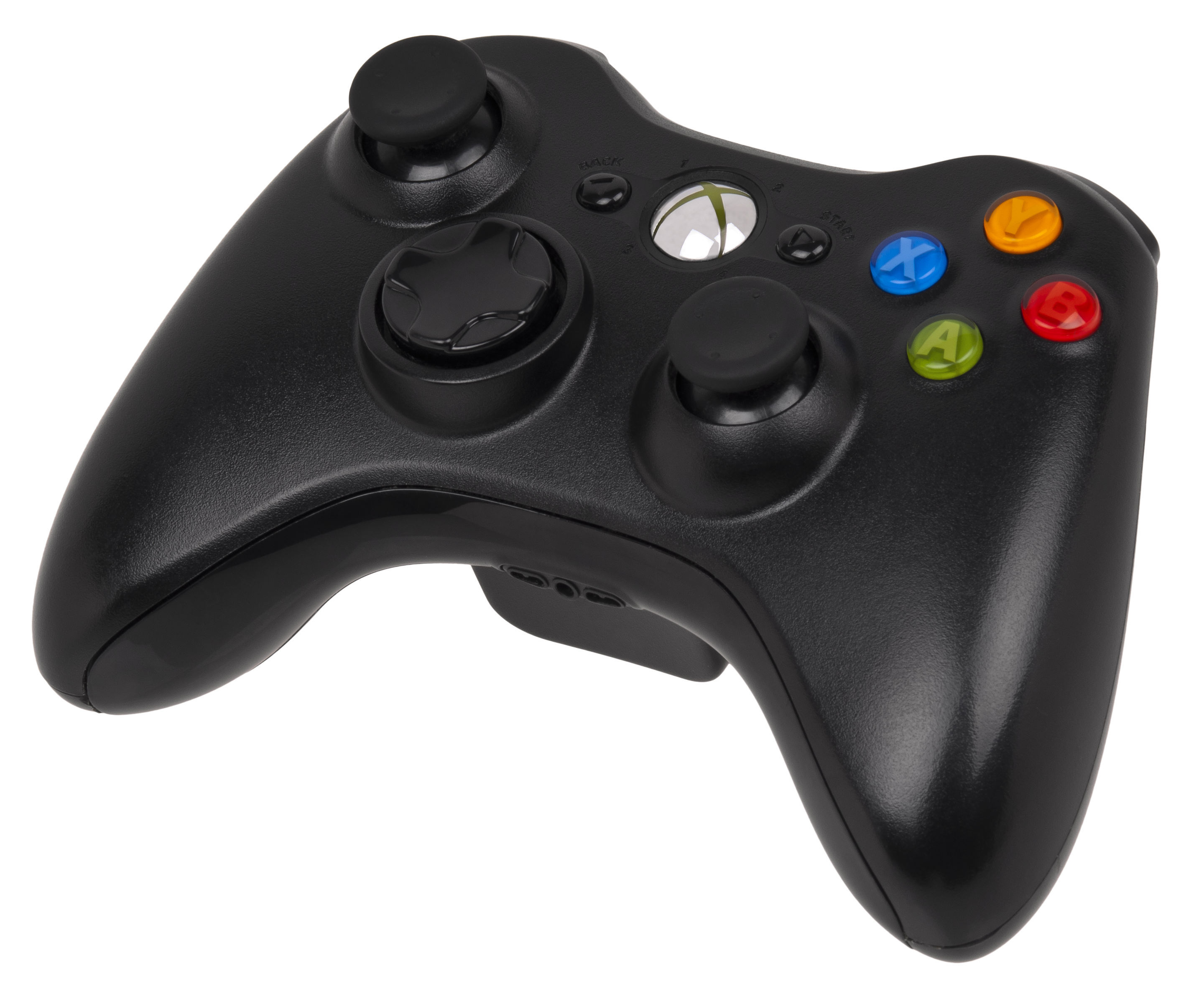 A black Xbox 360 wireless controller. This is the all-black model that comes packed in with 360 S systems.